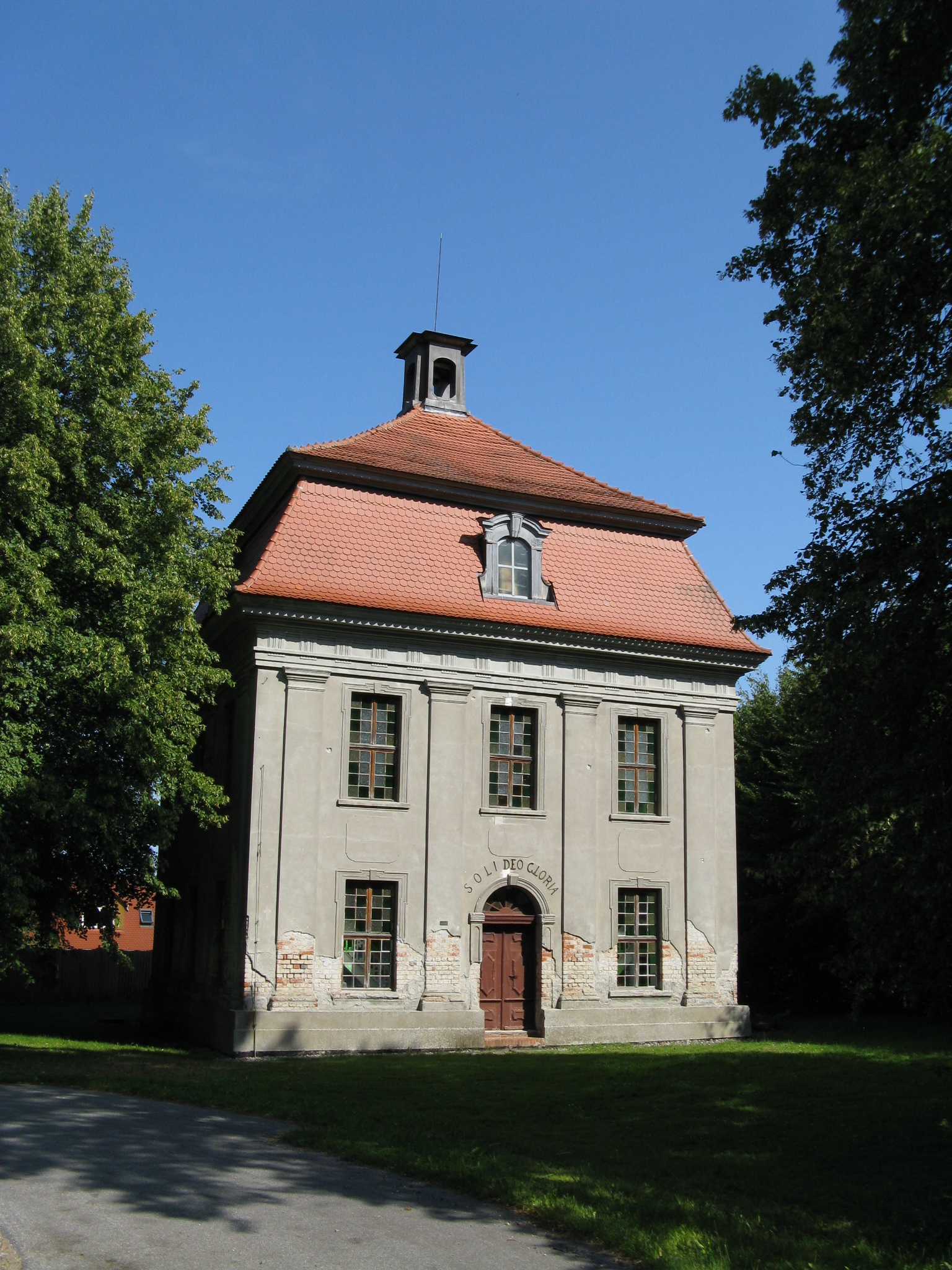 Chapel in Diekhof, disctrict Güstrow, Mecklenburg-Vorpommern, Germany